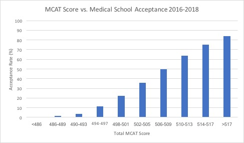 Medical School Acceptance based on MCAT Score, using data freely available from AAMC